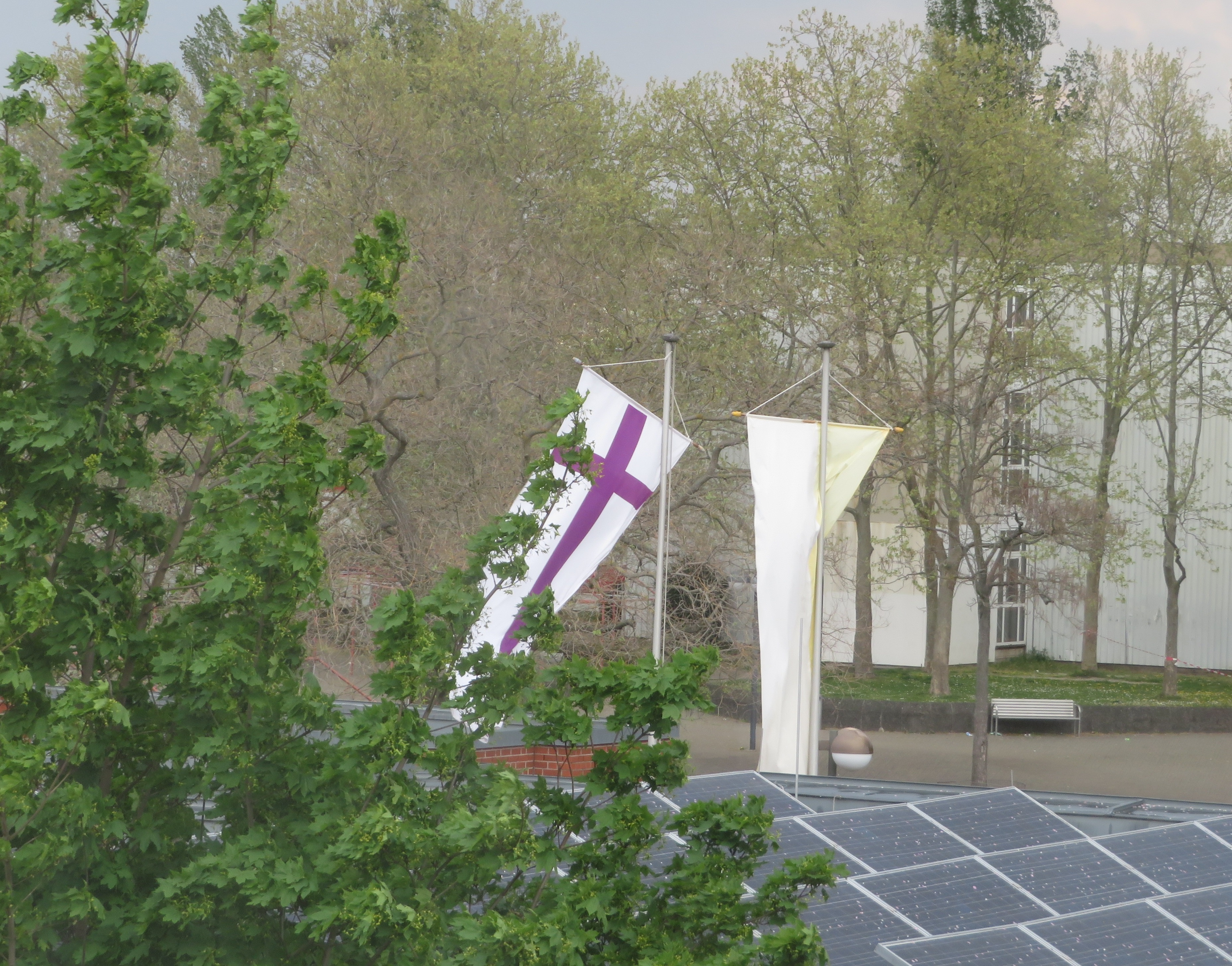 Flags on the empty forecourt of an ecumenical church in a small town in Rhineland Palatinate, Germany, during the lockdown Easter 2020. White and purple: the flag of the protestant church. White and yellow: the flag of the Catholic Church.